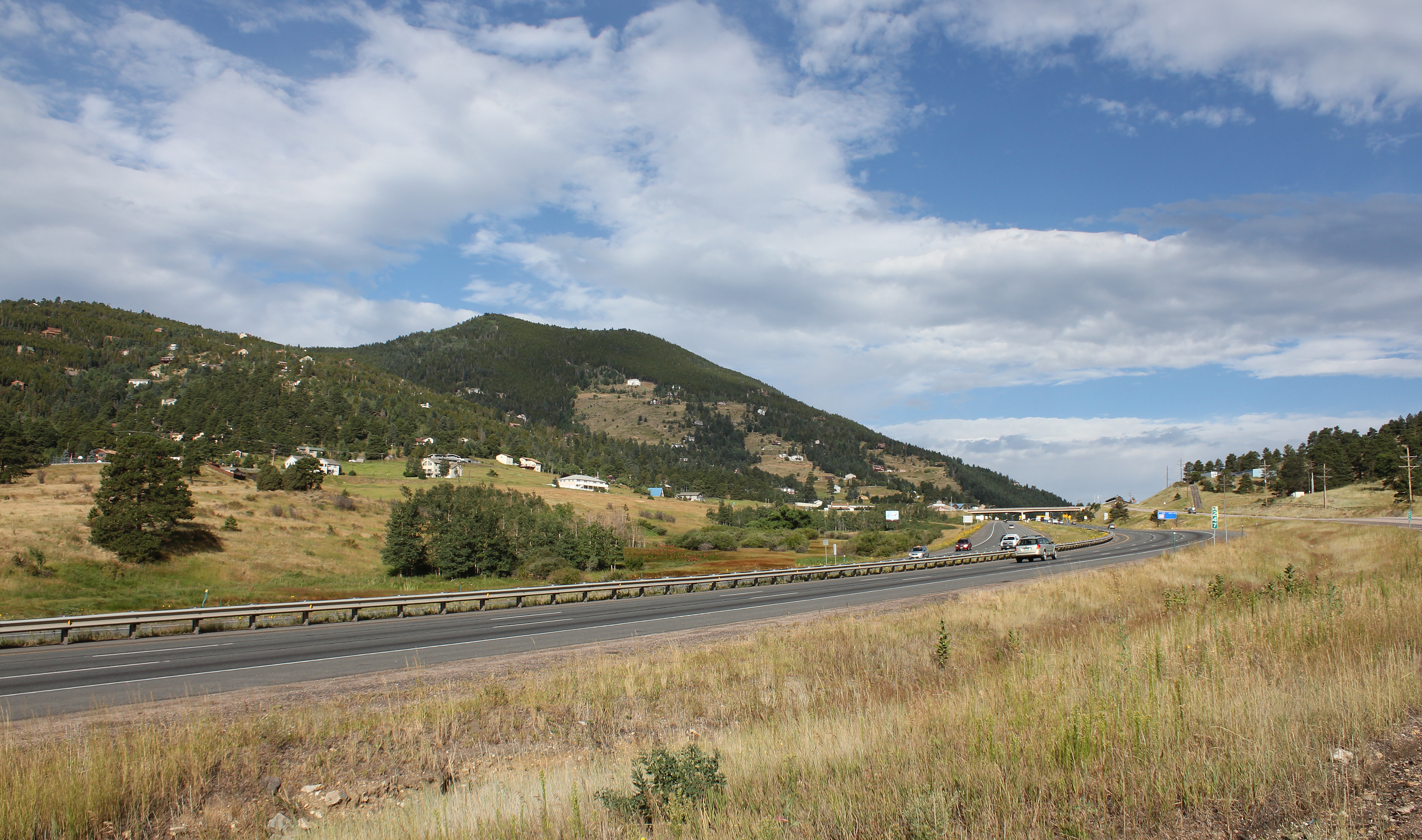 The community of Floyd Hill in Clear Creek, Colorado. Interstate 70 goes through the middle of the community.